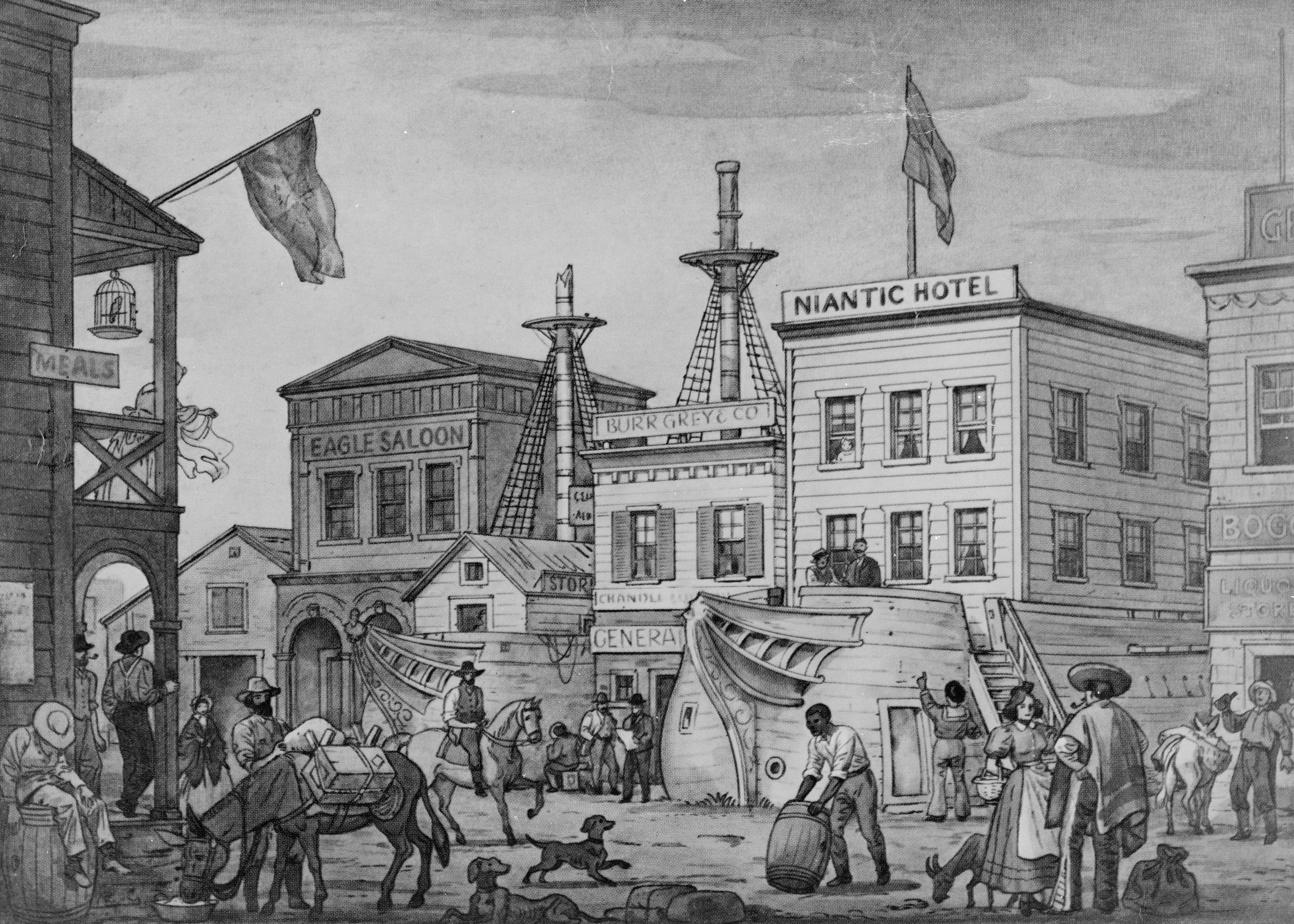 National Register of Historic Places in San Francisco, California. Niantic Hotel, Historic View, Clay & Sansome Streets, San Francisco, San Francisco County, CA. BUILT 1850 - DESTROYED 1851.